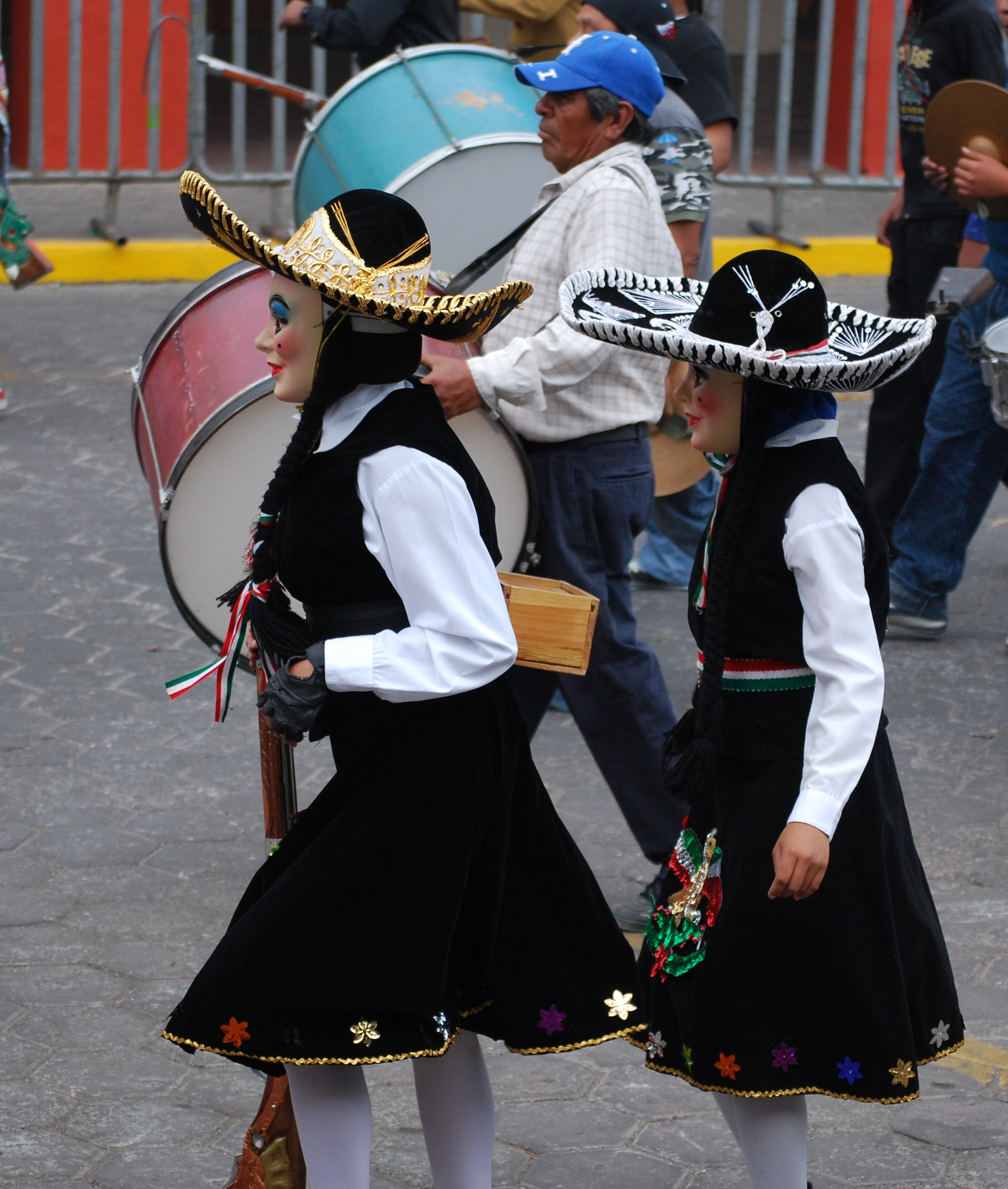 Zacapoaxtlas at the Carnival of Huejotzingo, Puebla, Mexico